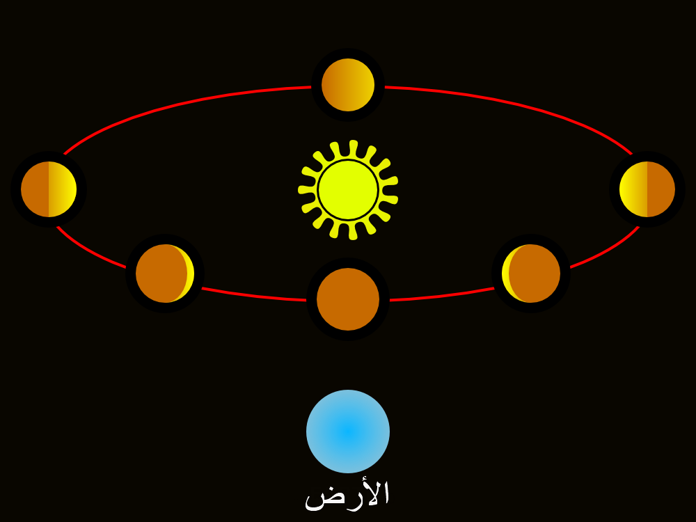 Oblique view of the phases of Venus (ar)